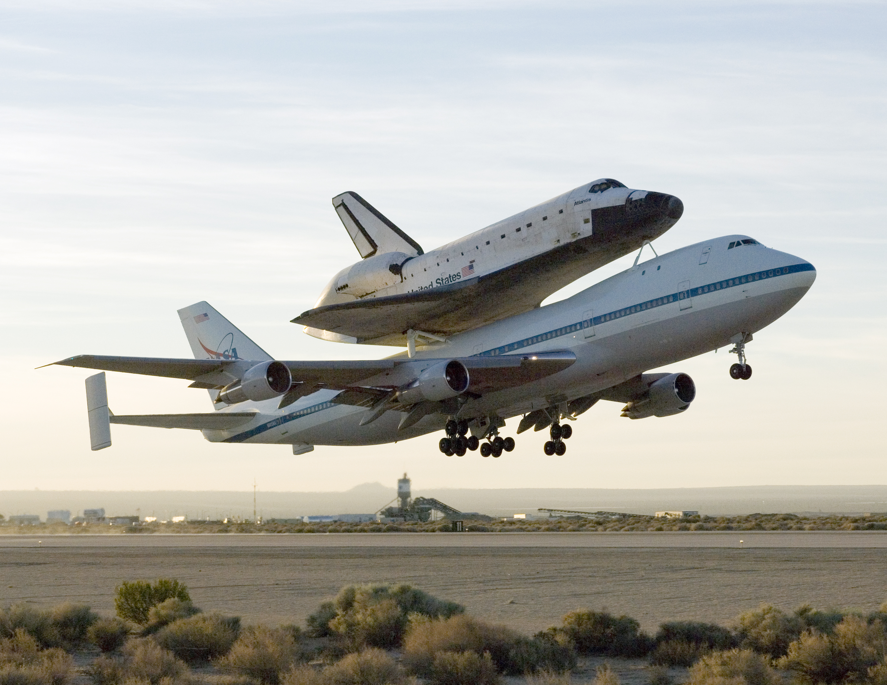 Space Shuttle Atlantis atop of NASA's 747 Shuttle Carrier Aircraft takes off from Edwards Air Force Base in California. Atlantis landed at Edwards following the STS-117 mission and so needed to be transported back to Kennedy Space Center.